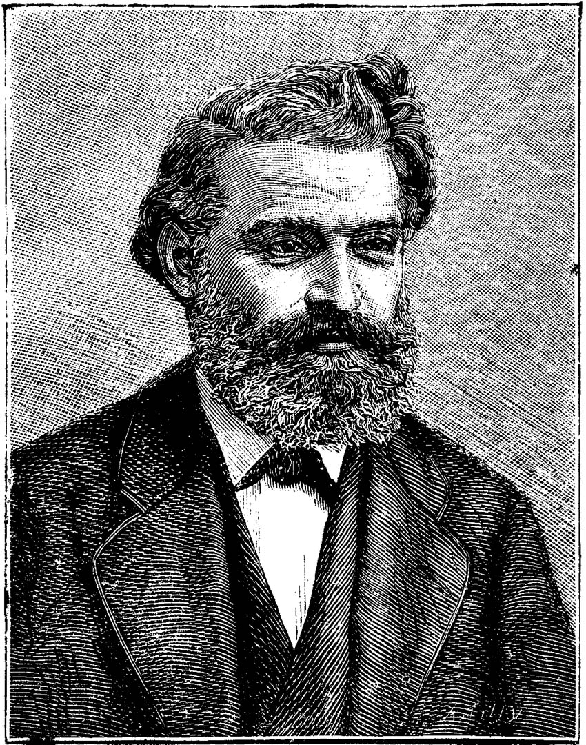 Swiss engineer Louis Favre. Upload by Adrian Michael Mai 2007.